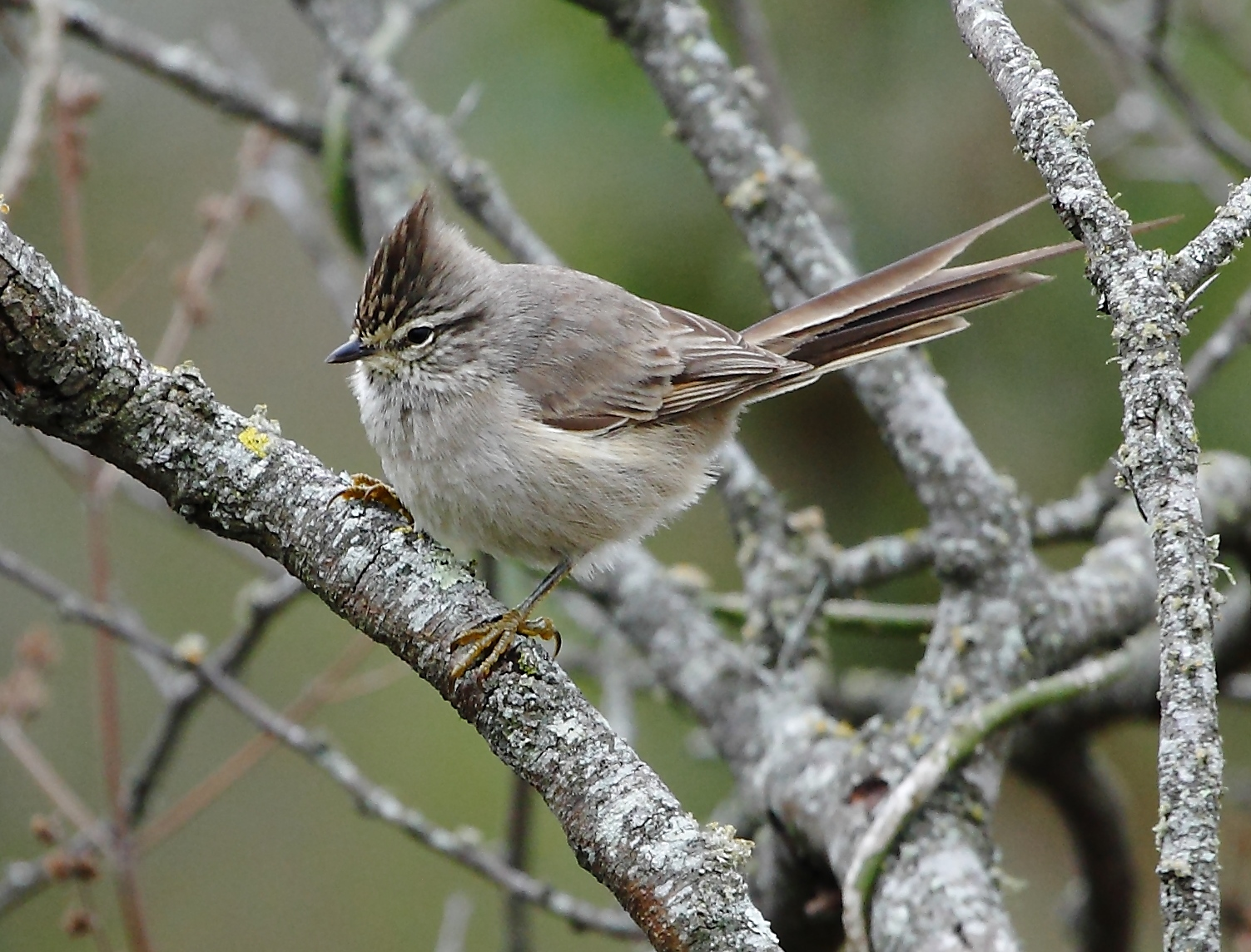 Tufted tit-spinetail at Esteros de Farrapos National Park, Uruguay